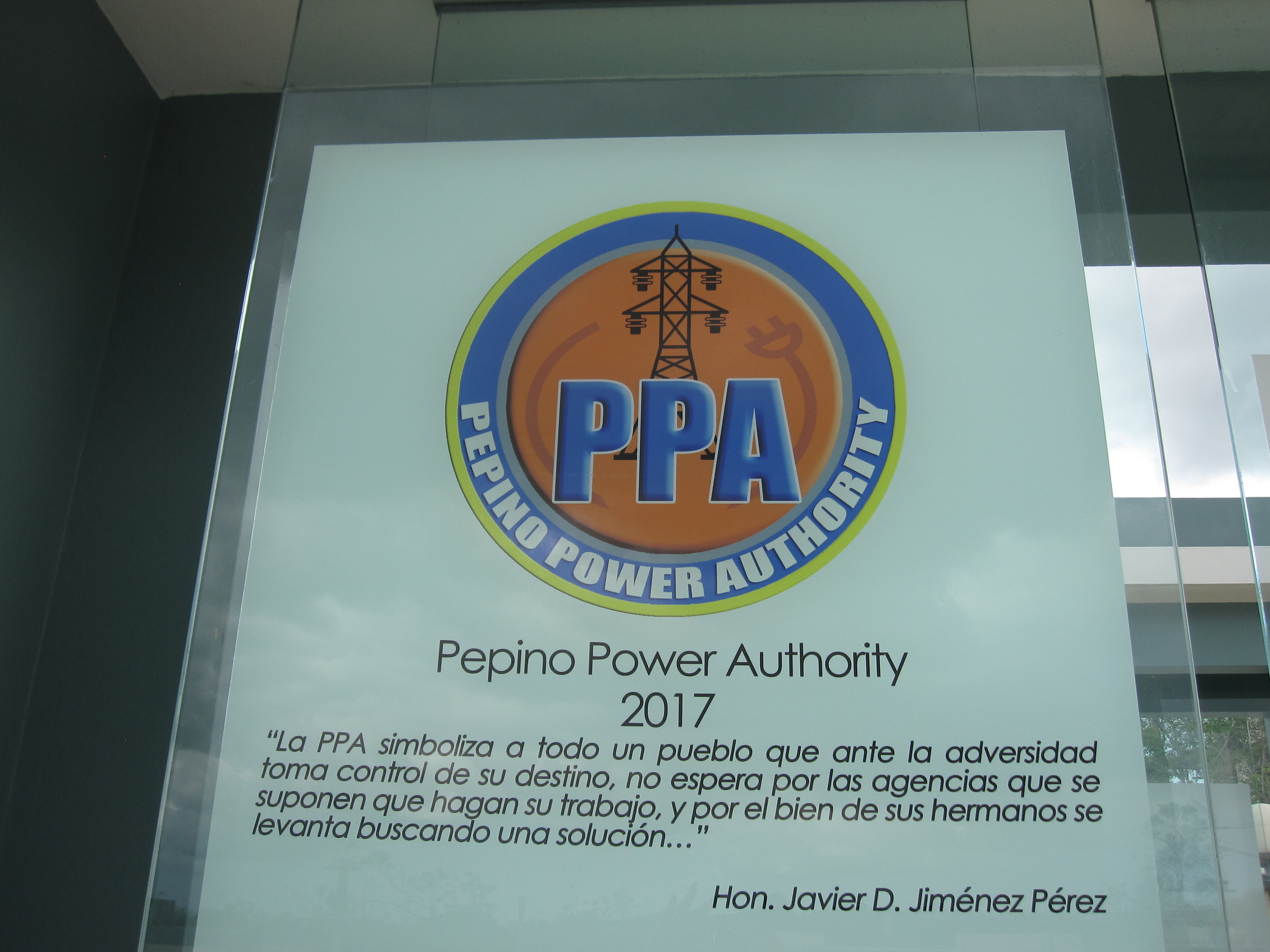 Pepino Power Authority, San Sebastián, Puerto Rico - ad hoc team of people that came together to restore the power to San Sebastián in Puerto Rico after Hurricane Maria in 2017